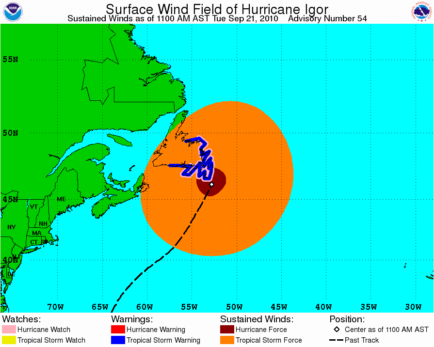 The maxium wind field of Hurricane Igor while it was still tropical.